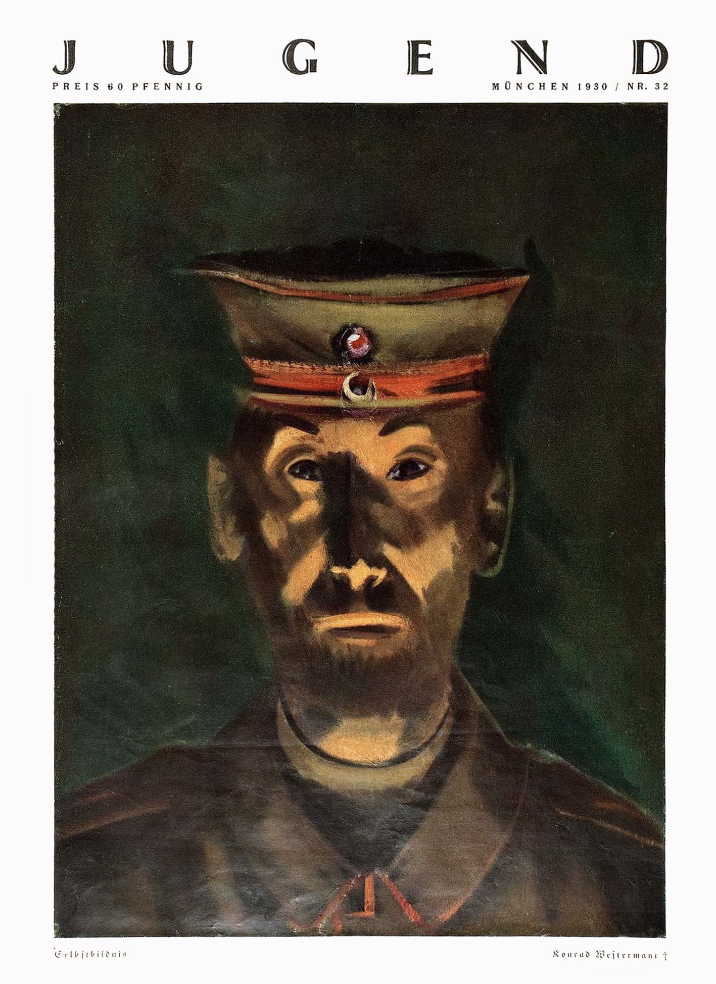 The weekly magazine Jugend no 32/1930.